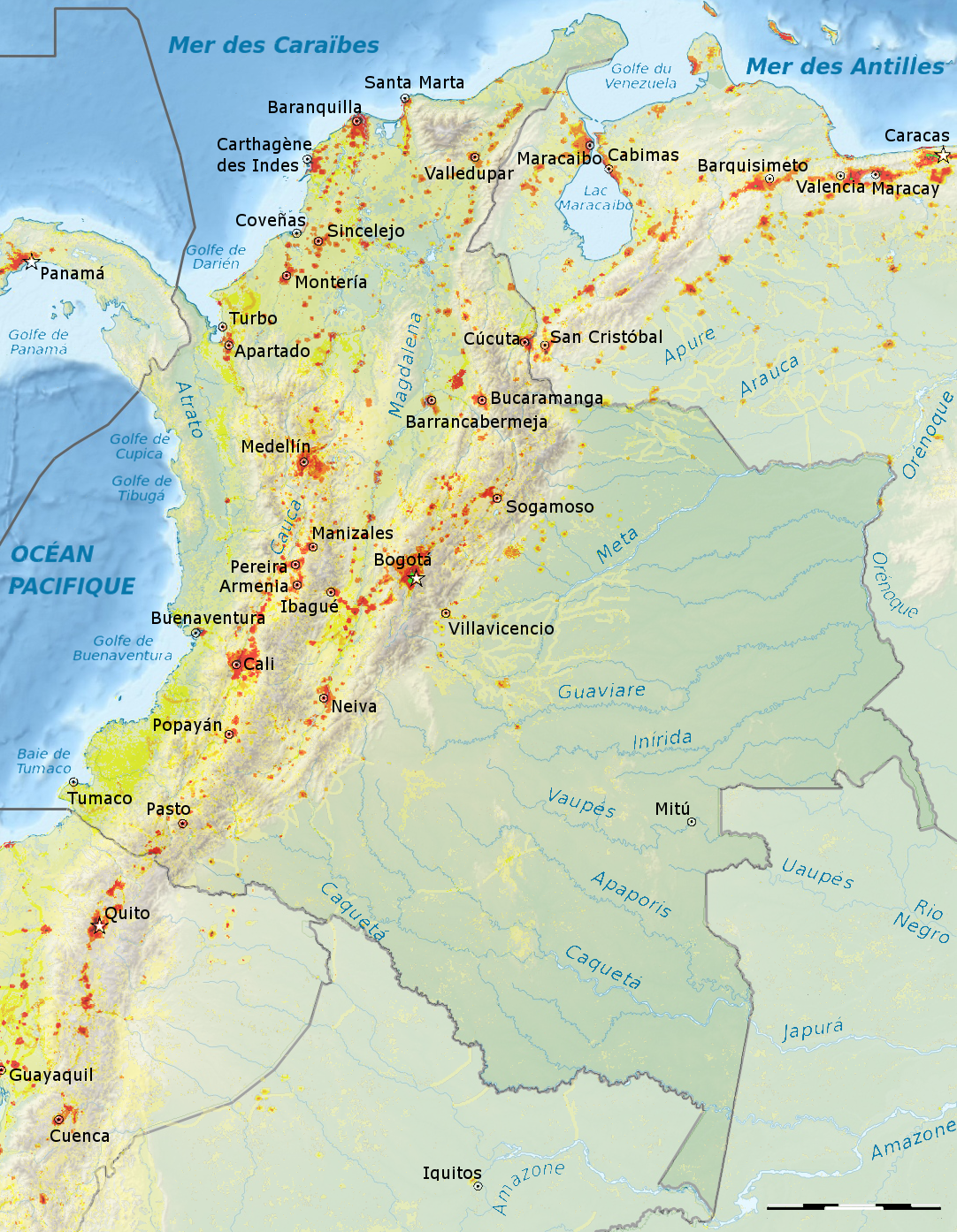 Population density of Colombia (2007)